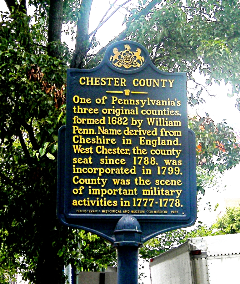 I took this photo on a trip to the U.S. in 2008